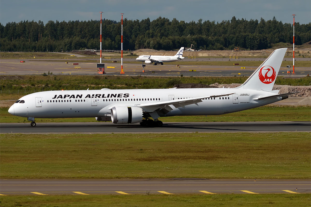 Japan Airlines, JA868J, Boeing 787-9 Dreamliner